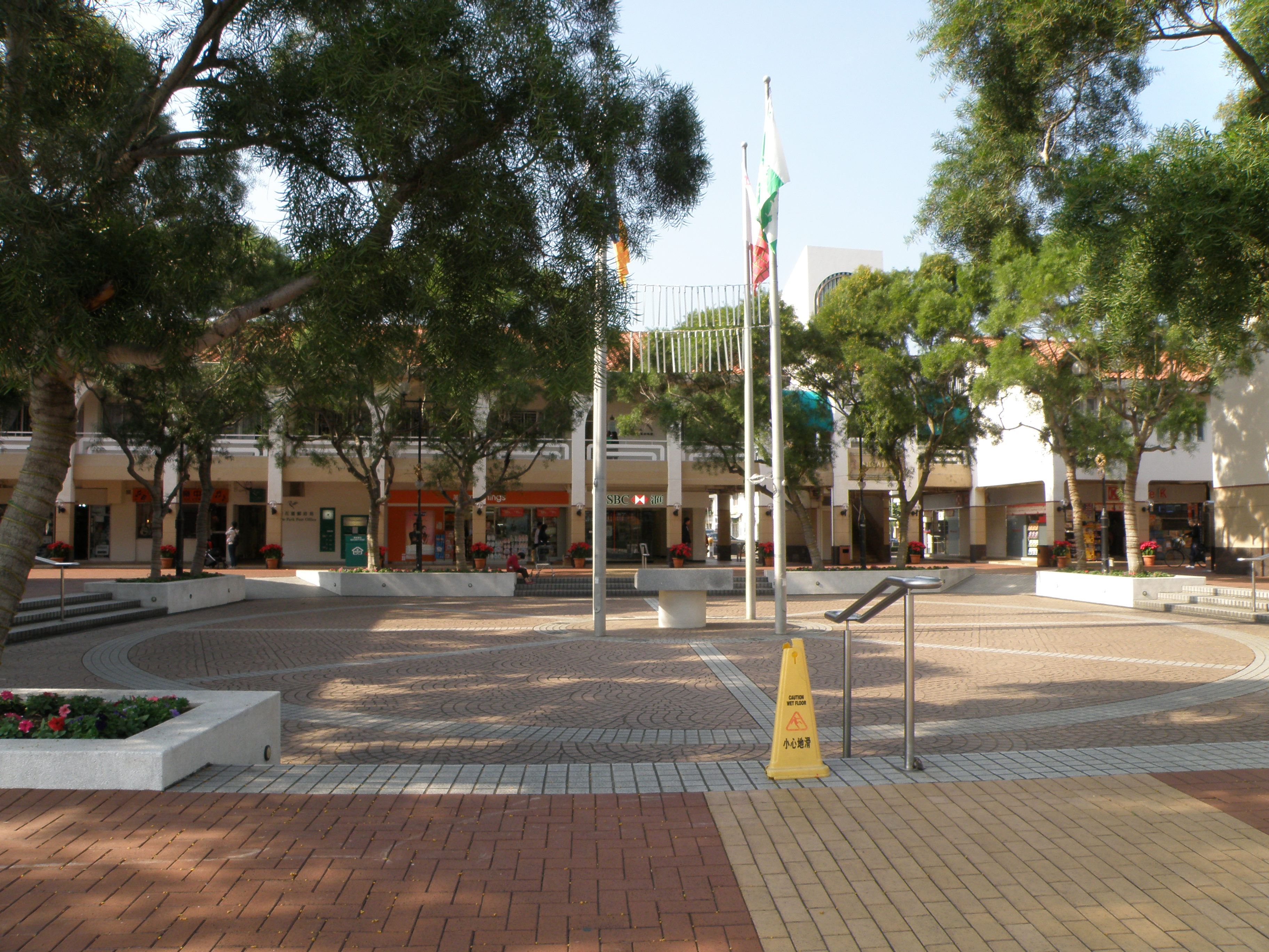 Fairview Park Town Centre (shopping arcade) in Tai Sang Wai, Hong Kong.